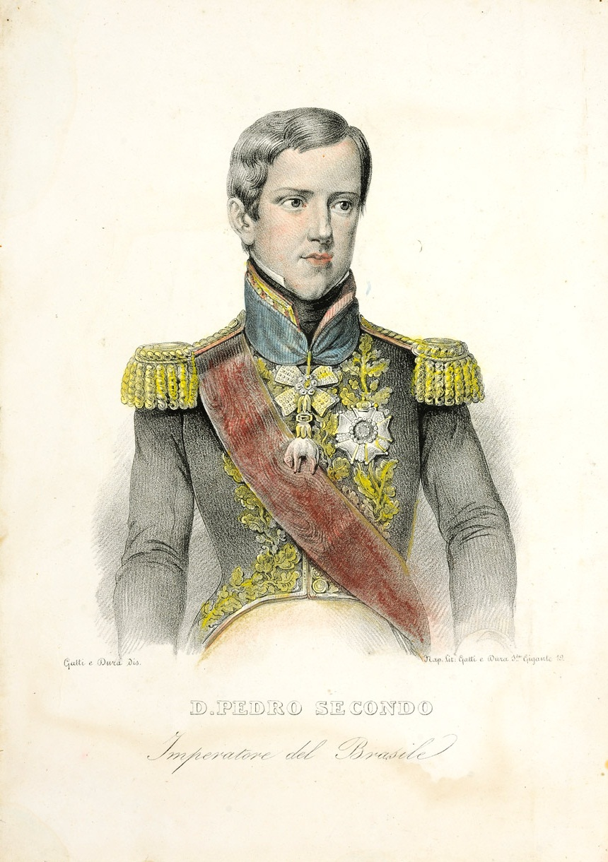 Emperor Pedro II of Brazil around age 16, c.1842.